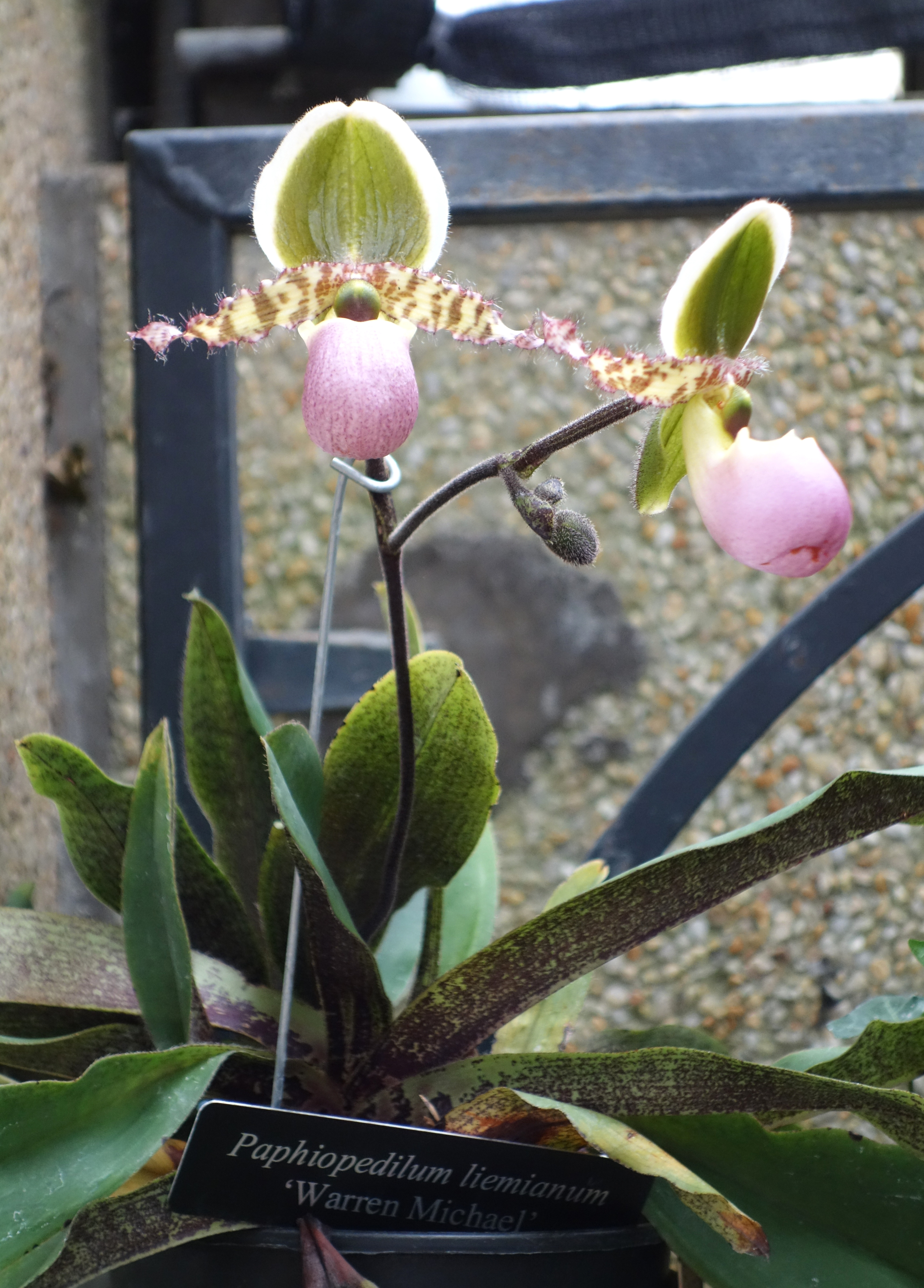 Botanical specimen in Longwood Gardens, 1001 Longwood Rd, Kennett Square, Pennsylvania, USA.